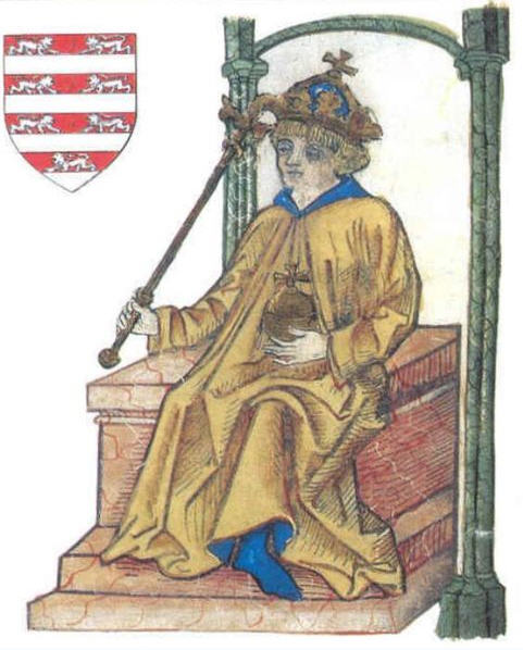 Ladislaus III of Hungary